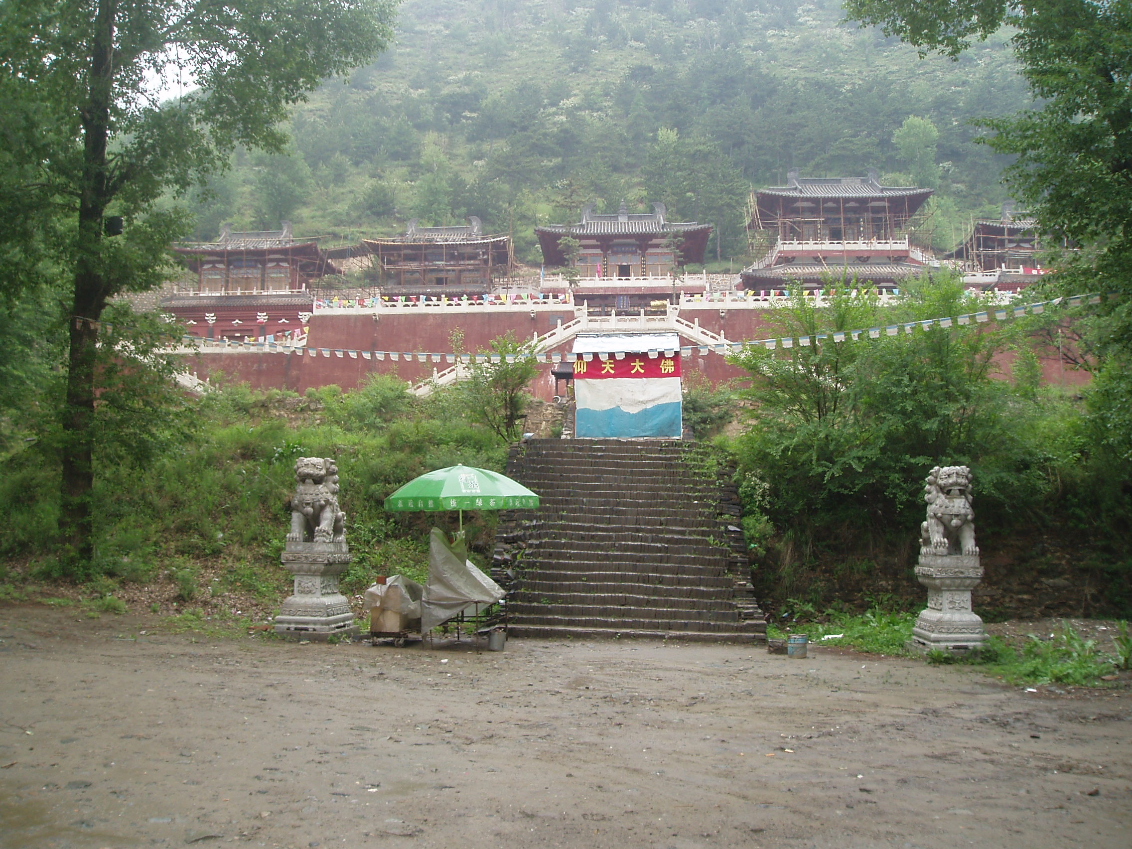 Lingfeng Temple in Wutaishan, China.